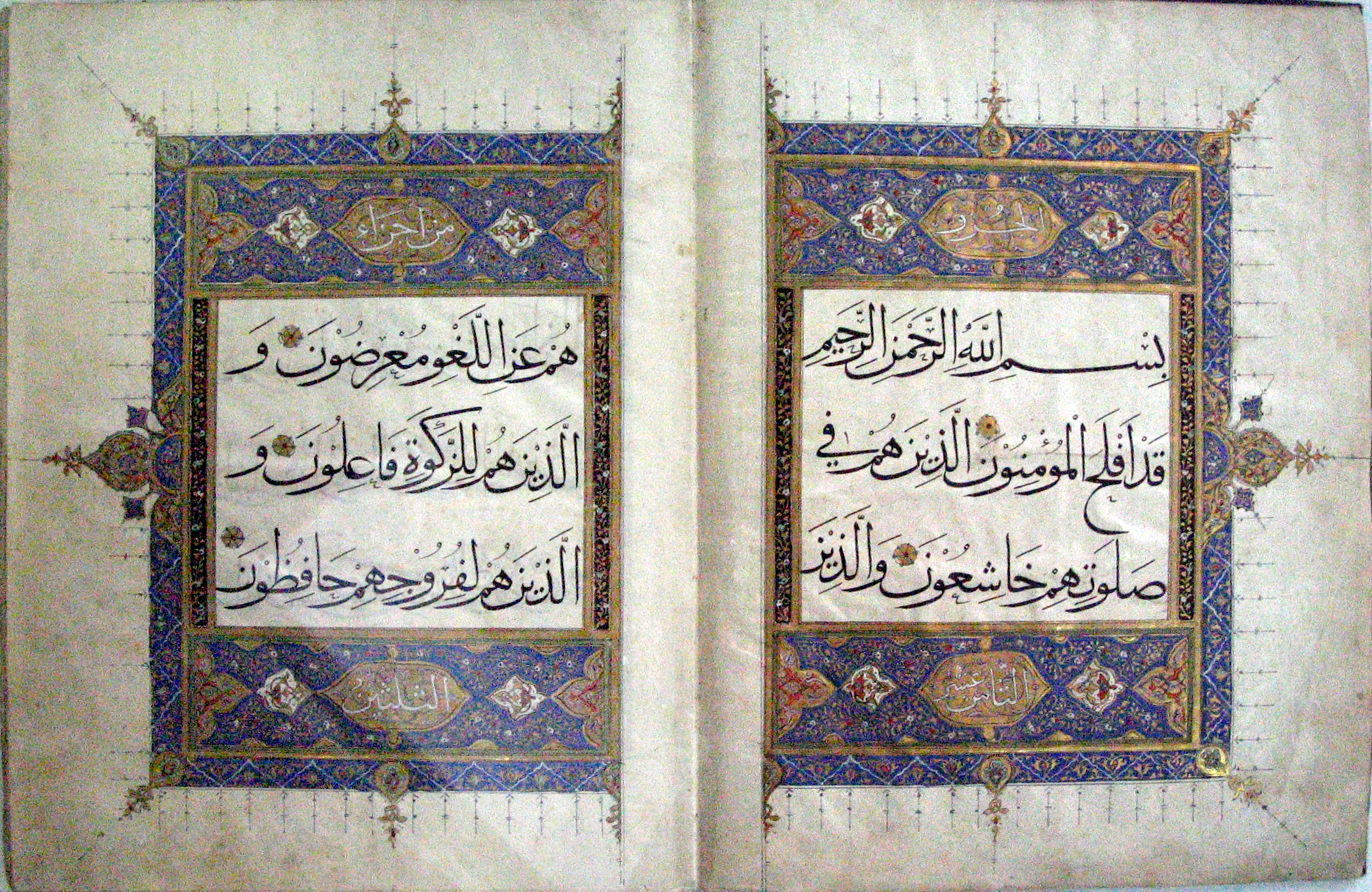 Quran, Mohaqaq script, signé par Emâd al-Mahalati, XVth century. National Iran Museum, Tehran.